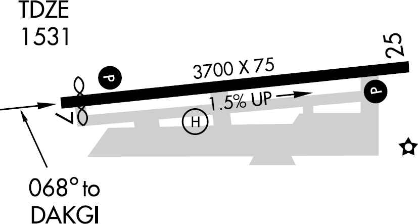 FAA diagram for Auburn Municipal Airport (FAA: AUN, ICAO: KAUN) in Auburn, California, United States.